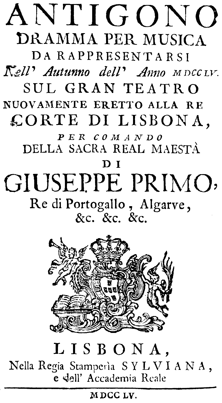 Antonio Mazzoni - Antigono - titlepage of the libretto - Lissabon 1755